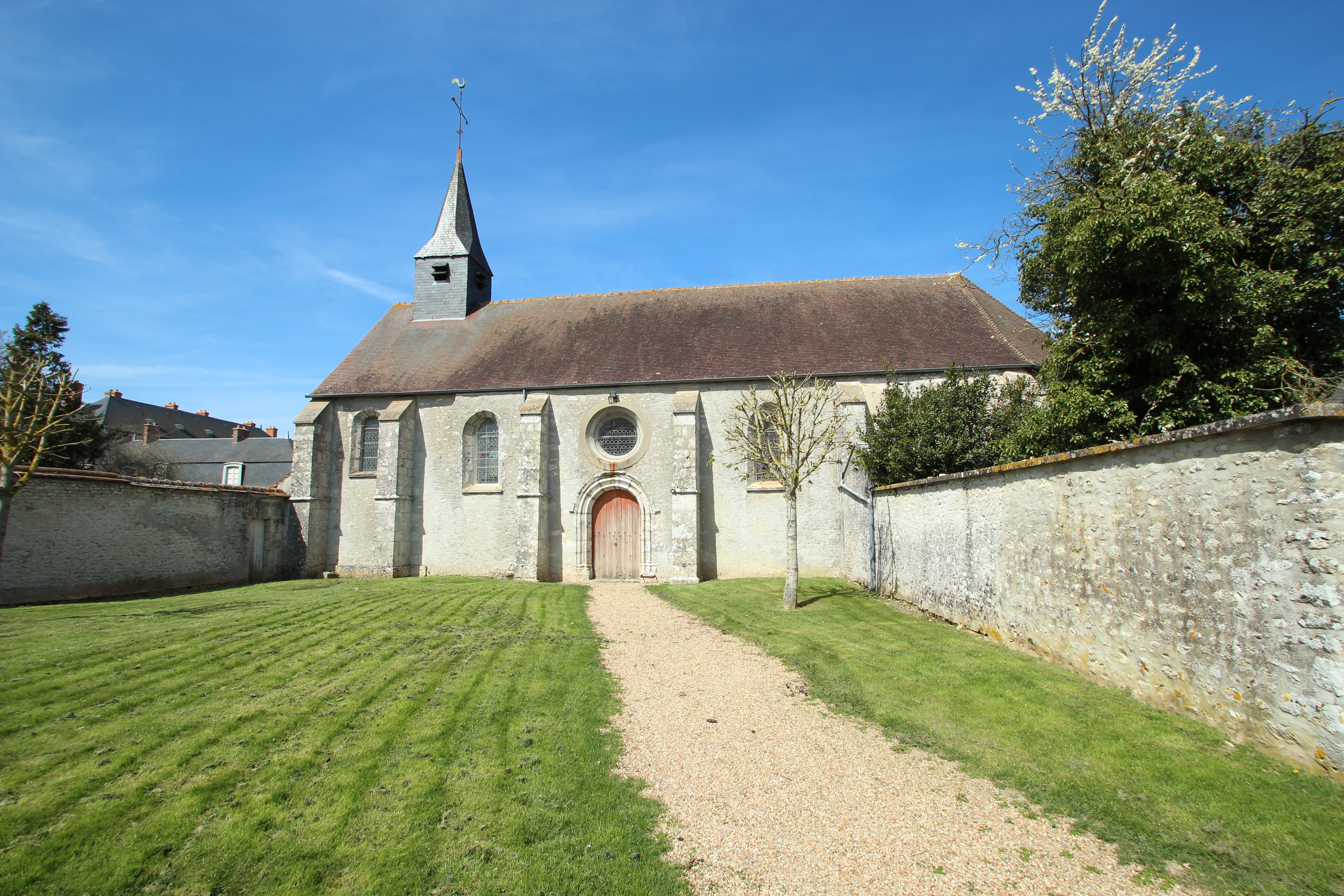 Saint-Germain church of Dommerville in Angerville, Essonne, France.